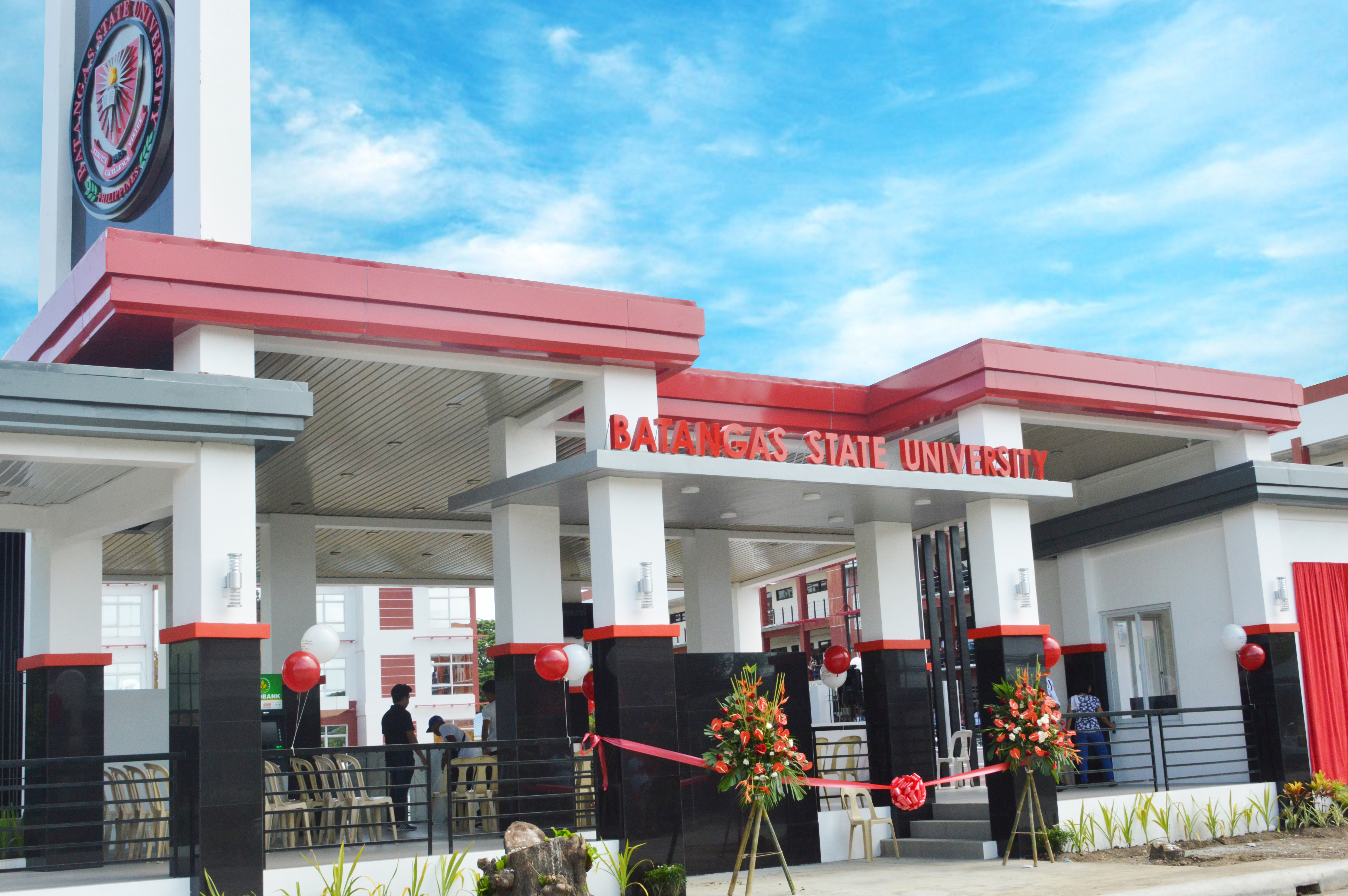 BatStateU ARASOF Nasugbu